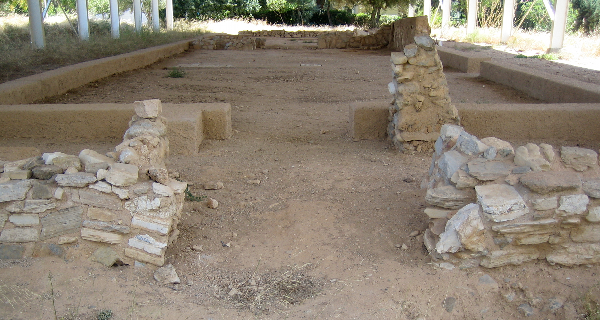 Protogeometric building (Xth century BC) excavated in Lefkandi, a coastal village on the island of Euboea (Greece). As seen from the main door.